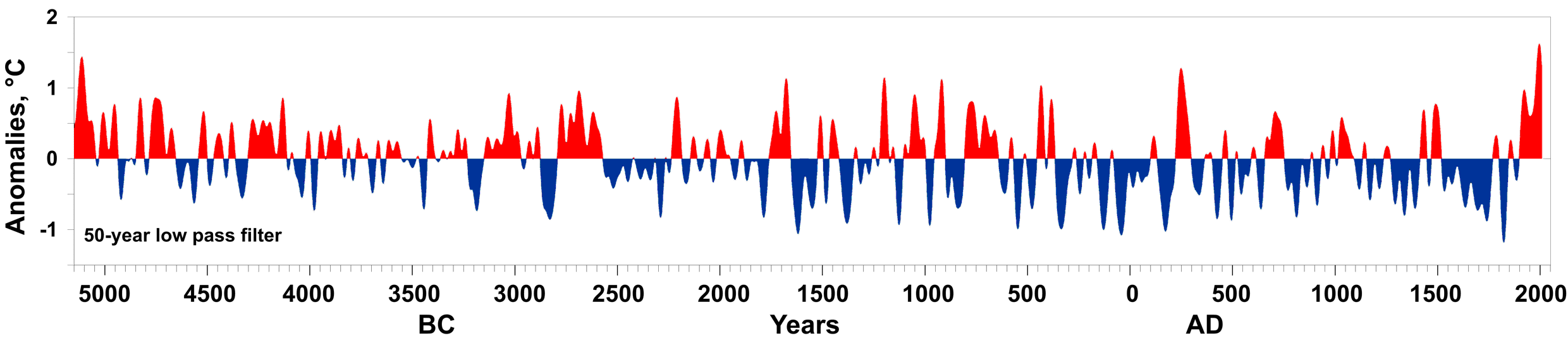 Summer temperature anomalies for the past 7000 years (Yamal Peninsula, Russia)